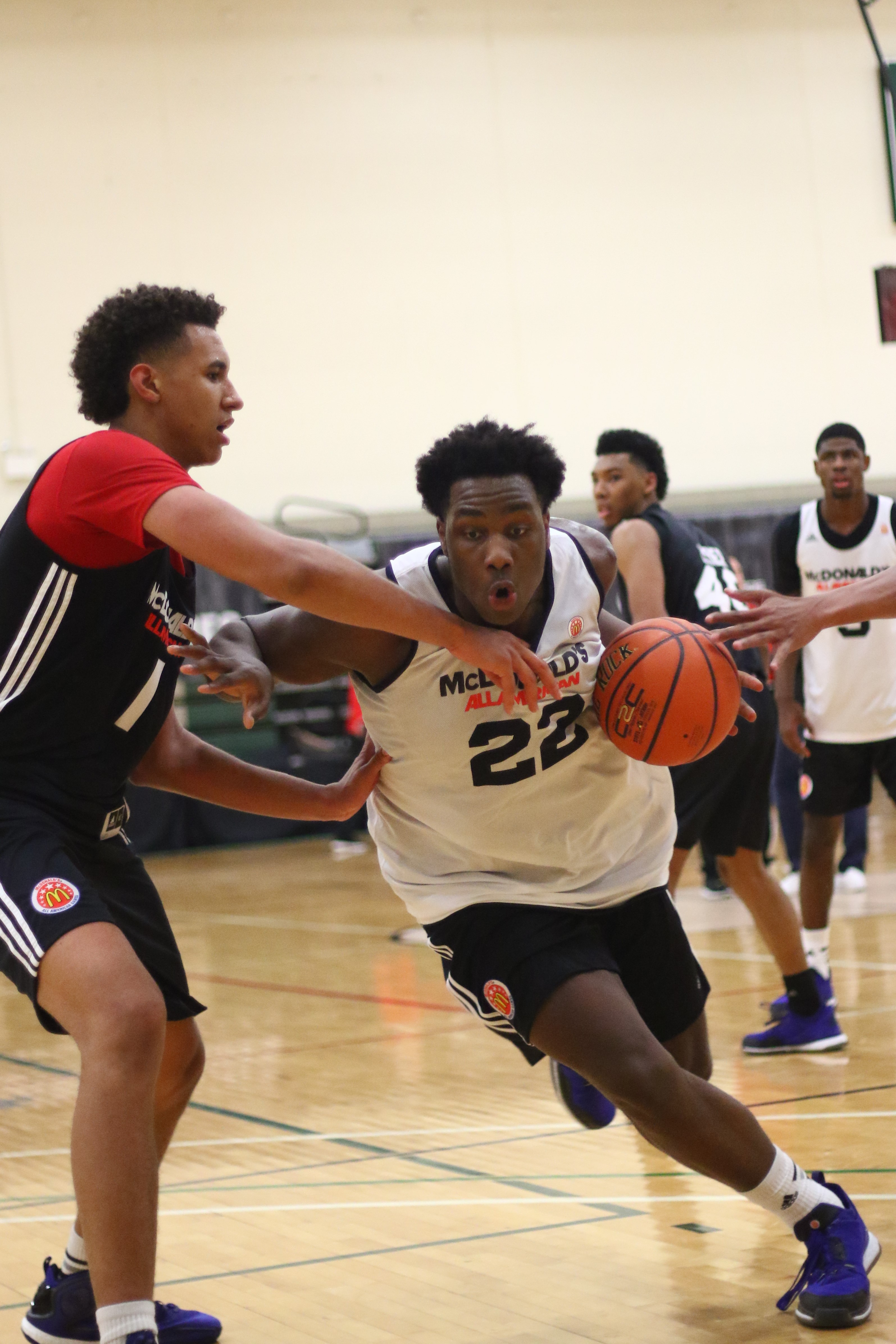 Caleb Swanigan in the w:2015 McDonald's All-American Boys Game closed practice